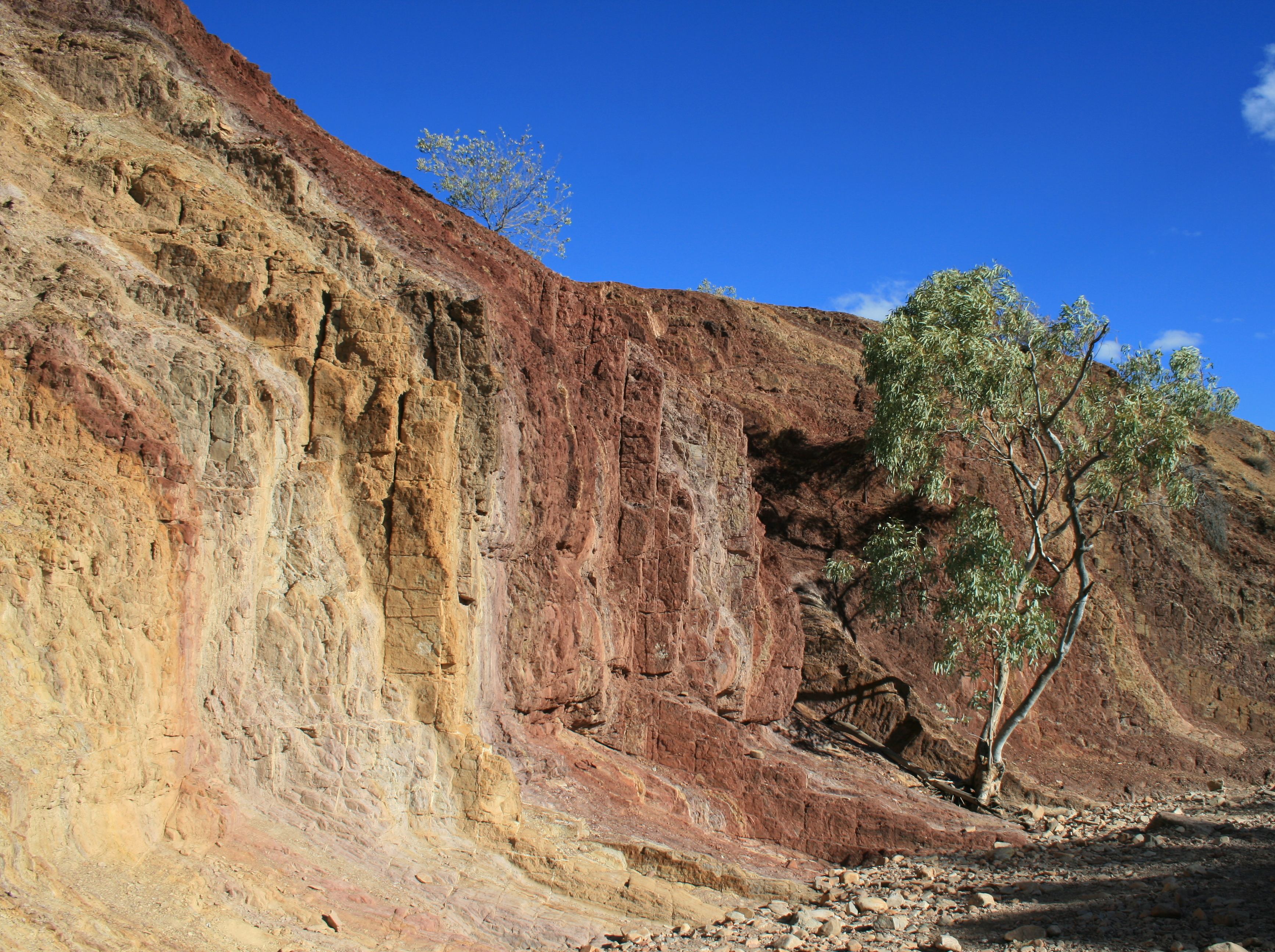 A range of coloured ochres were obtained by Aboriginal people from this site in central Australia.